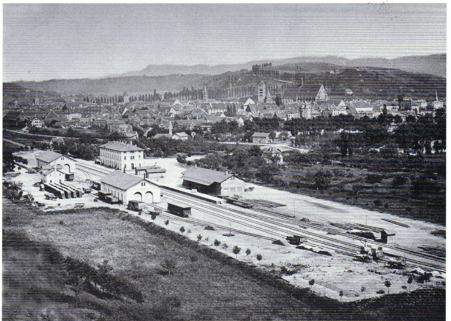 Bahnhof von Schwäbisch Gmünd